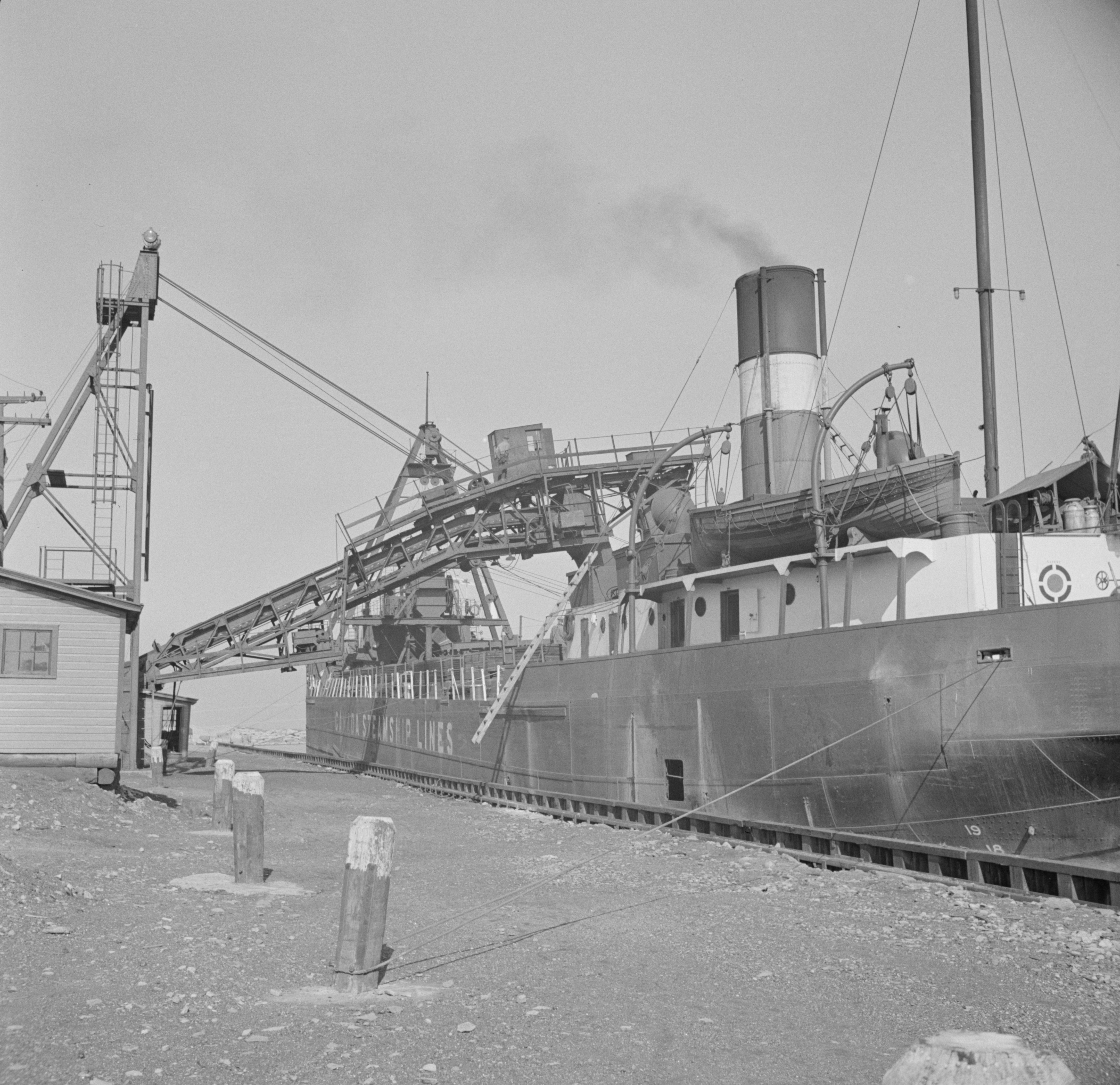 Canadian collier loading coal in Oswego, New York